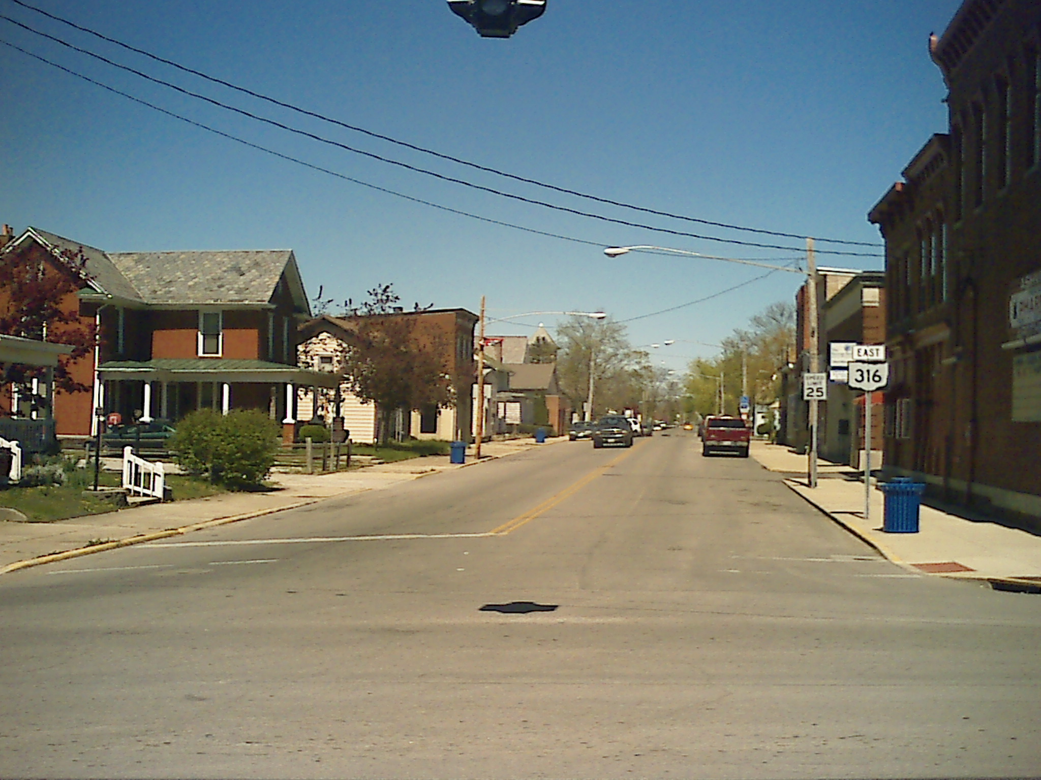 Looking north on Long Street in Ashville